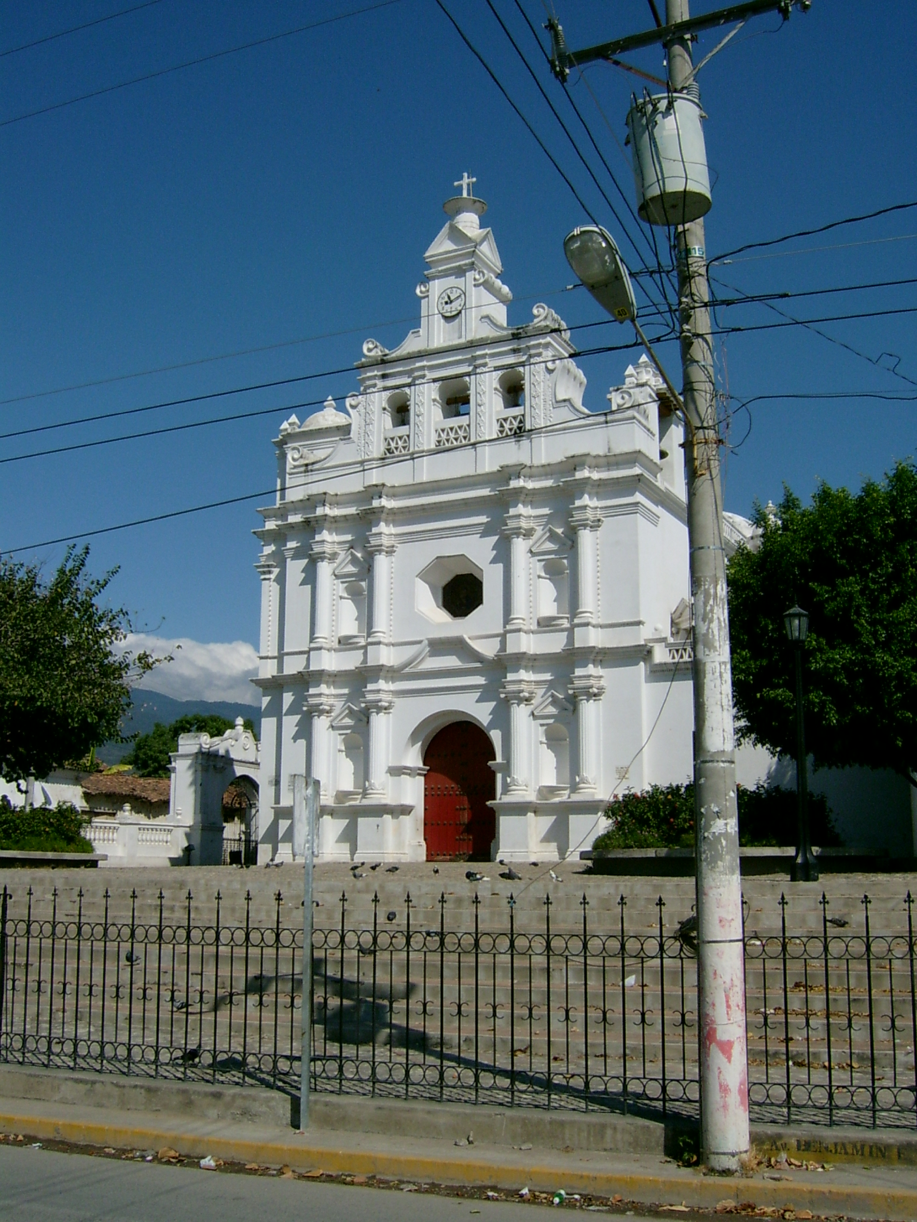 St Peter's Church in MetapÃ¡n, El Salvador. It was built between 1736 - 1743. This picture is my own work. It was taken on January 14, 2005 and later published on .